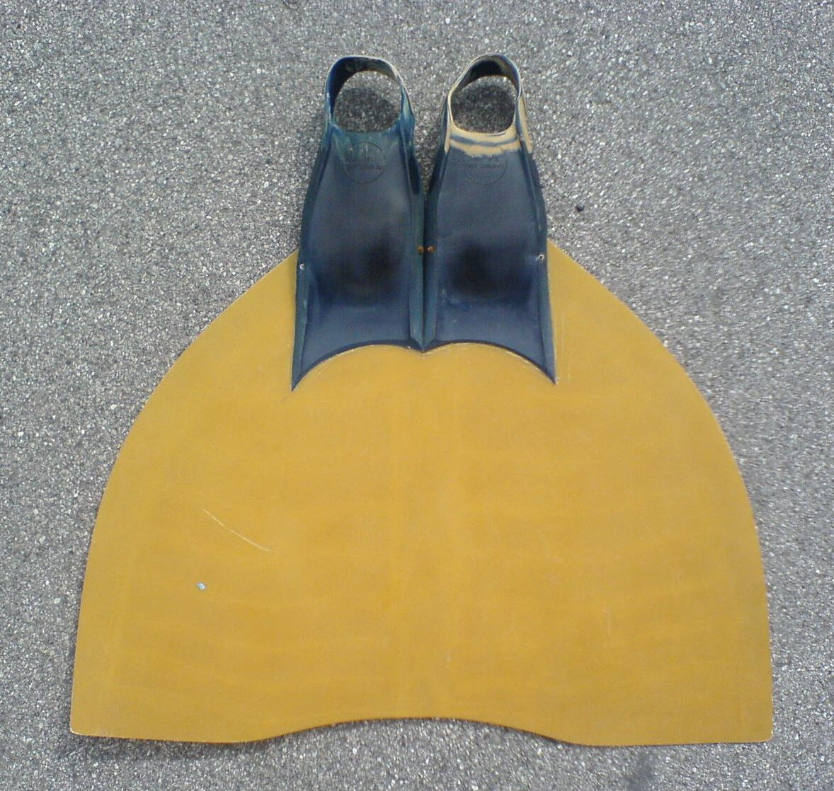 Image of a monofin coming from Russia. This is an "old" model, but still valid!